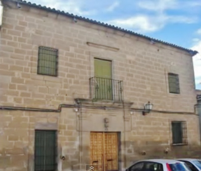 dcdcdcdcdc